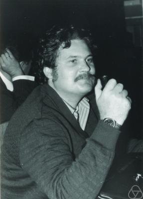 Rudolf Ahlswede at the Vith Prague Conference 1971